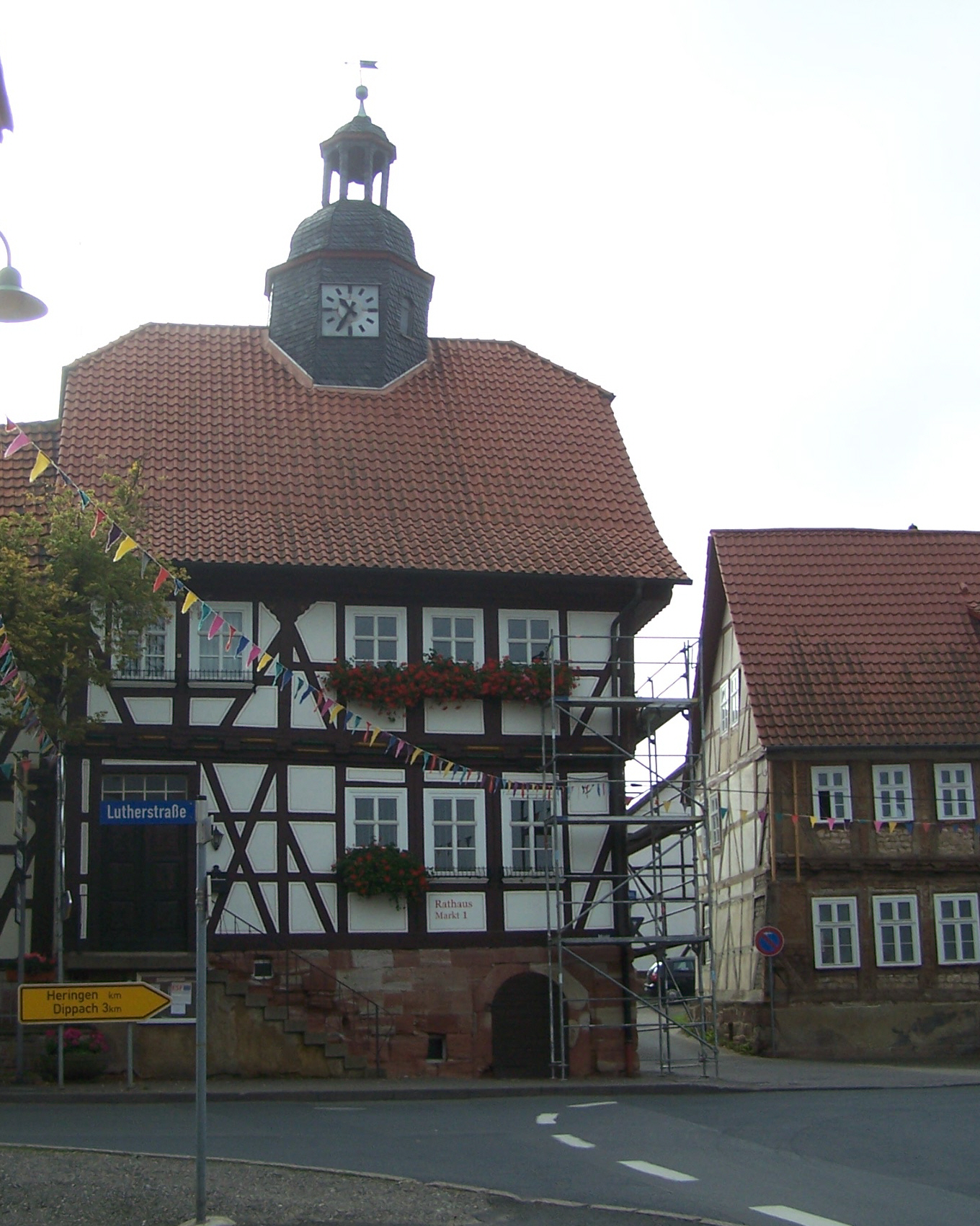 The administration in Berka/Werra.